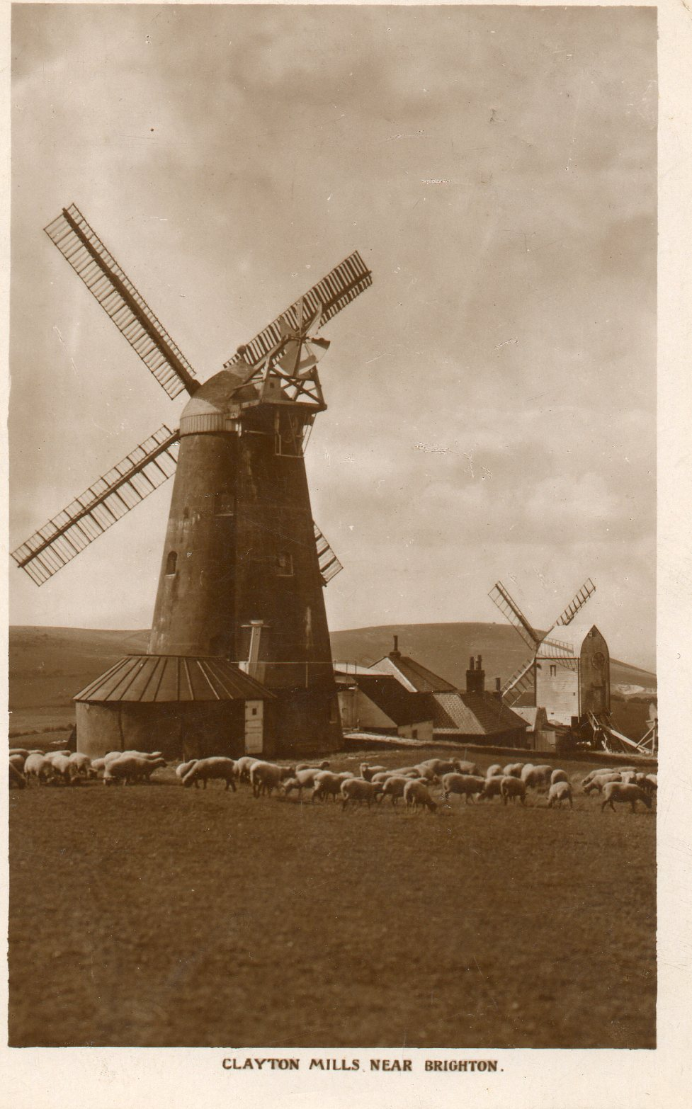 Jack and Jill Mills, Clayton, showing the roundhouse of Duncton Mill. Jack stopped working in 1908 so picture is before that date. Card postally used 4-7-1924